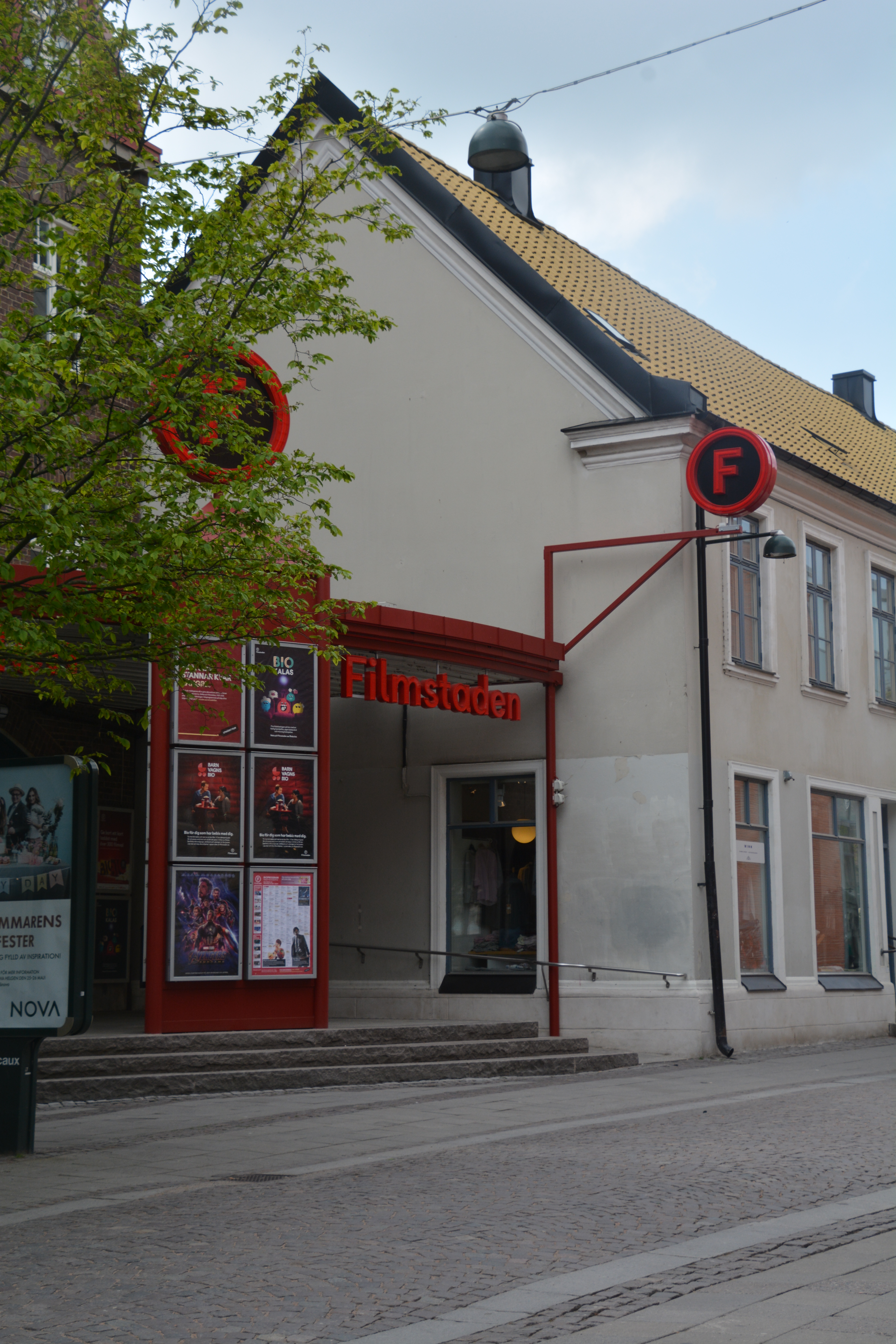 Filmstaden in Lund, Sweden, with new signs from 2018/2019, Västra Mårtensgatan